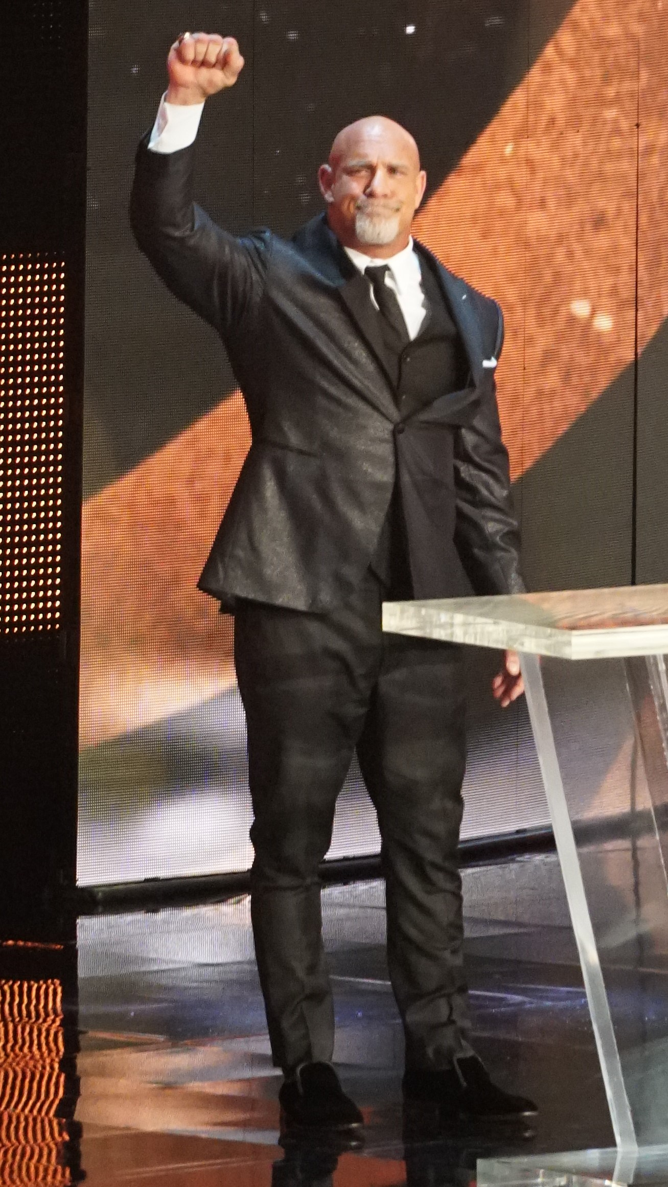 Bill Goldberg being inducted into the WWE Hall of Fame as part of the class of 2018.